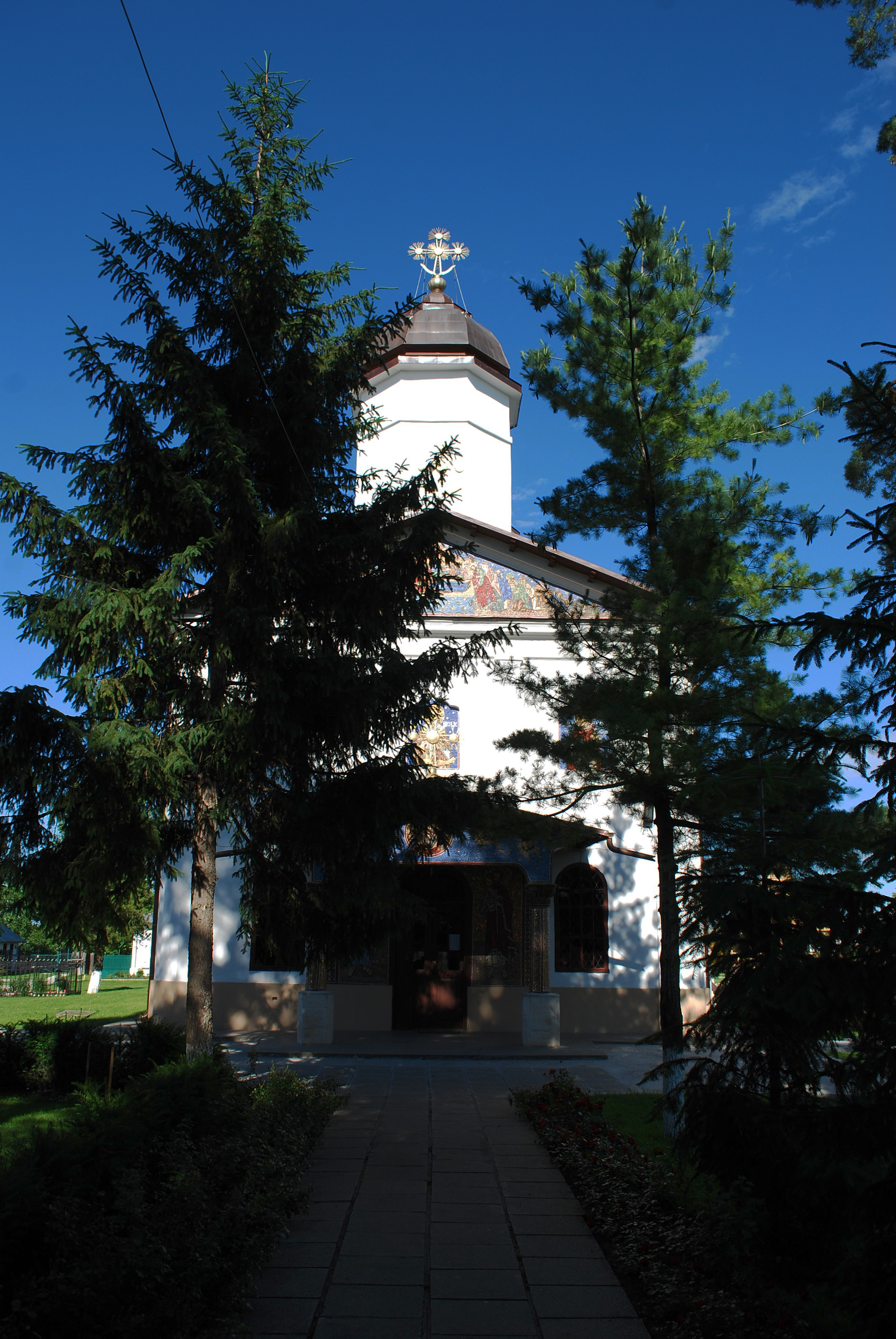 The Church of Țigănești monastery in Ciolpani commune, Ilfov County, RomaniaRomână: Biserica mănăstirii Țigănești, comuna Ciolpani, județul Ilfov, România 01